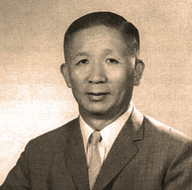 A portrait of Witness Lee taken sometime between 1950 and 1070.